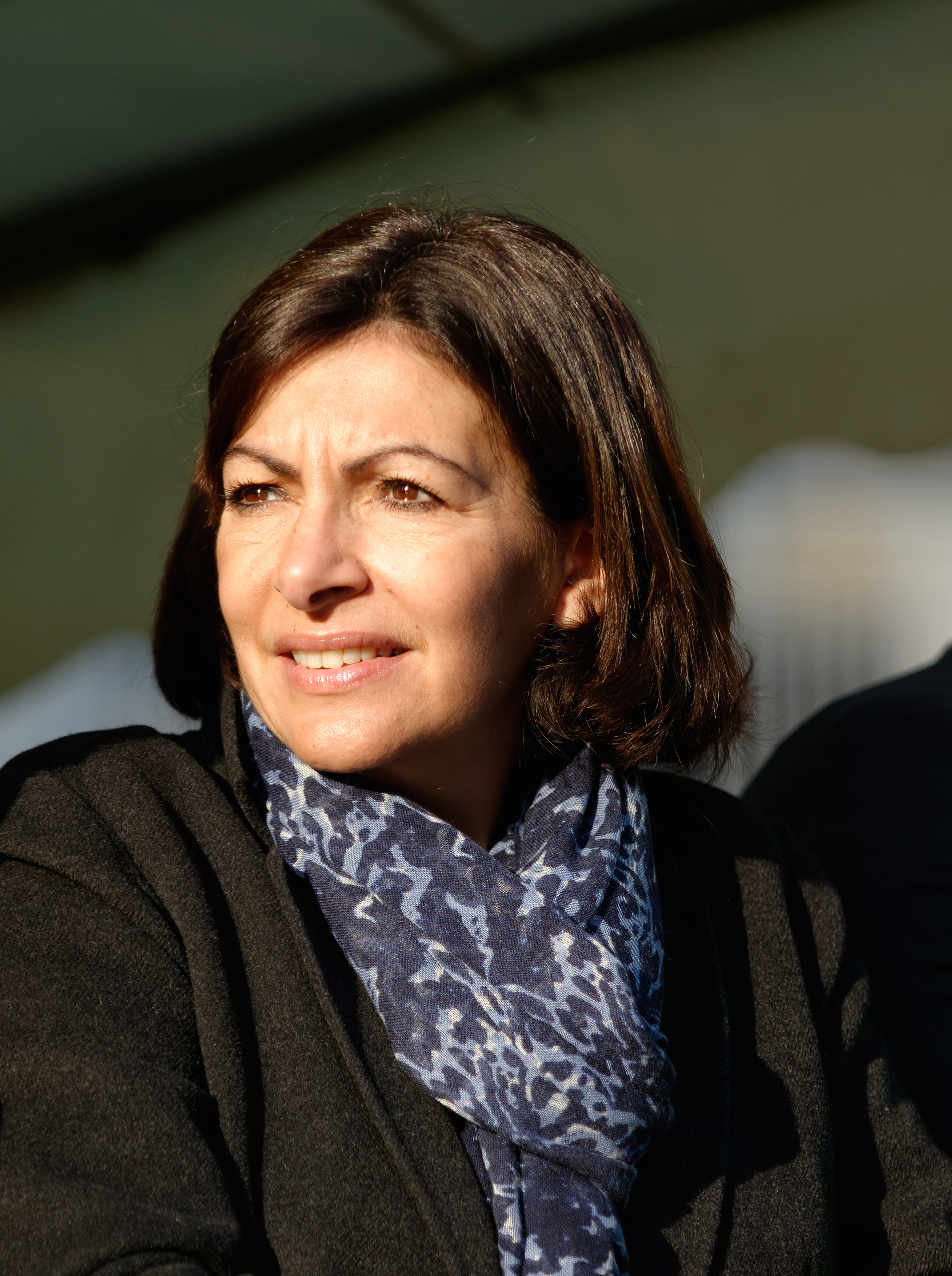 Paris mayor Anne Hildago in the official gallery at the 2014 Paris Marathon.